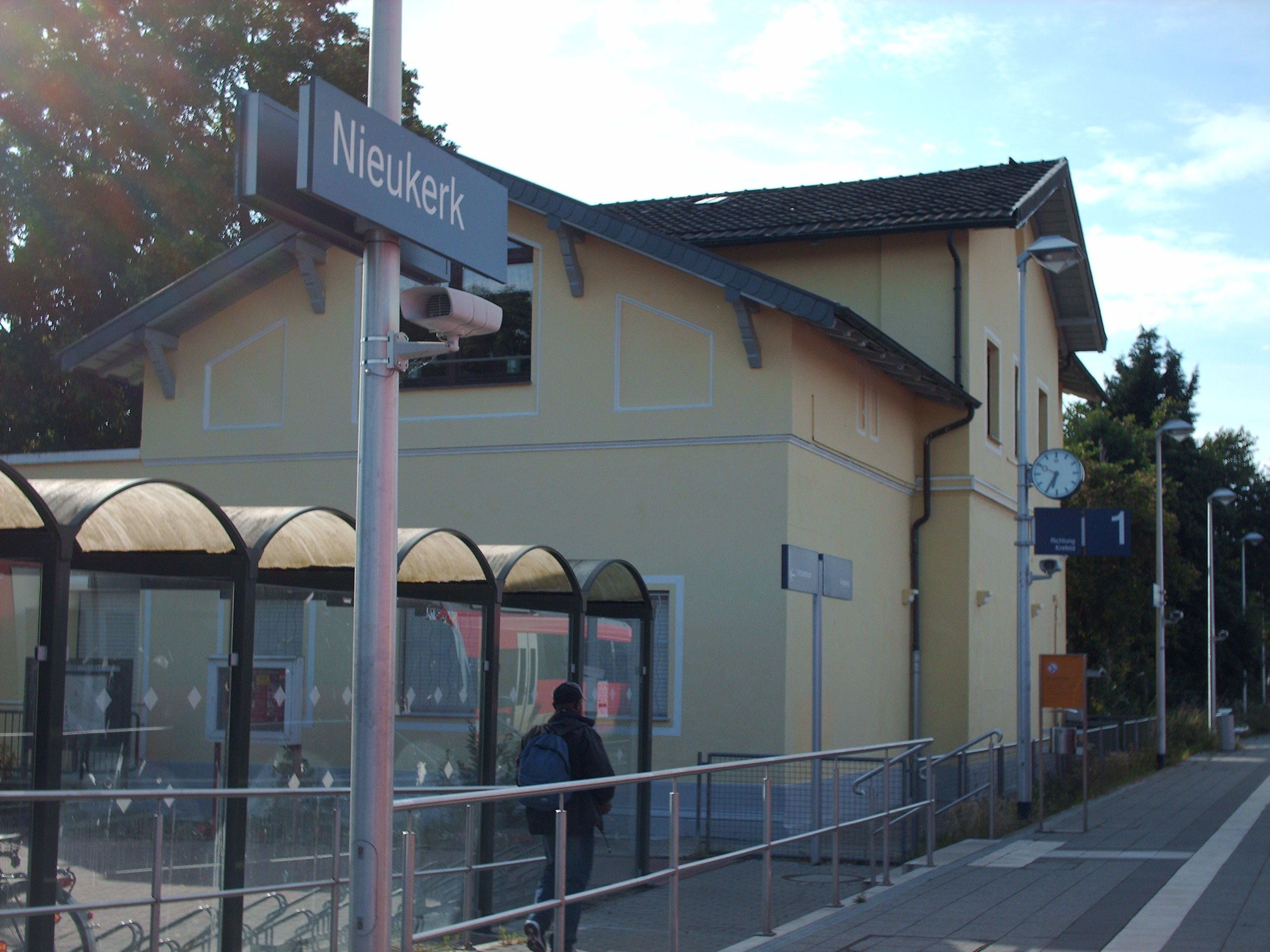 Nieukerk station, Kerken, Germany check usage